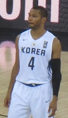 2014 FIBA Basketball World Cup Korea vs Mexico